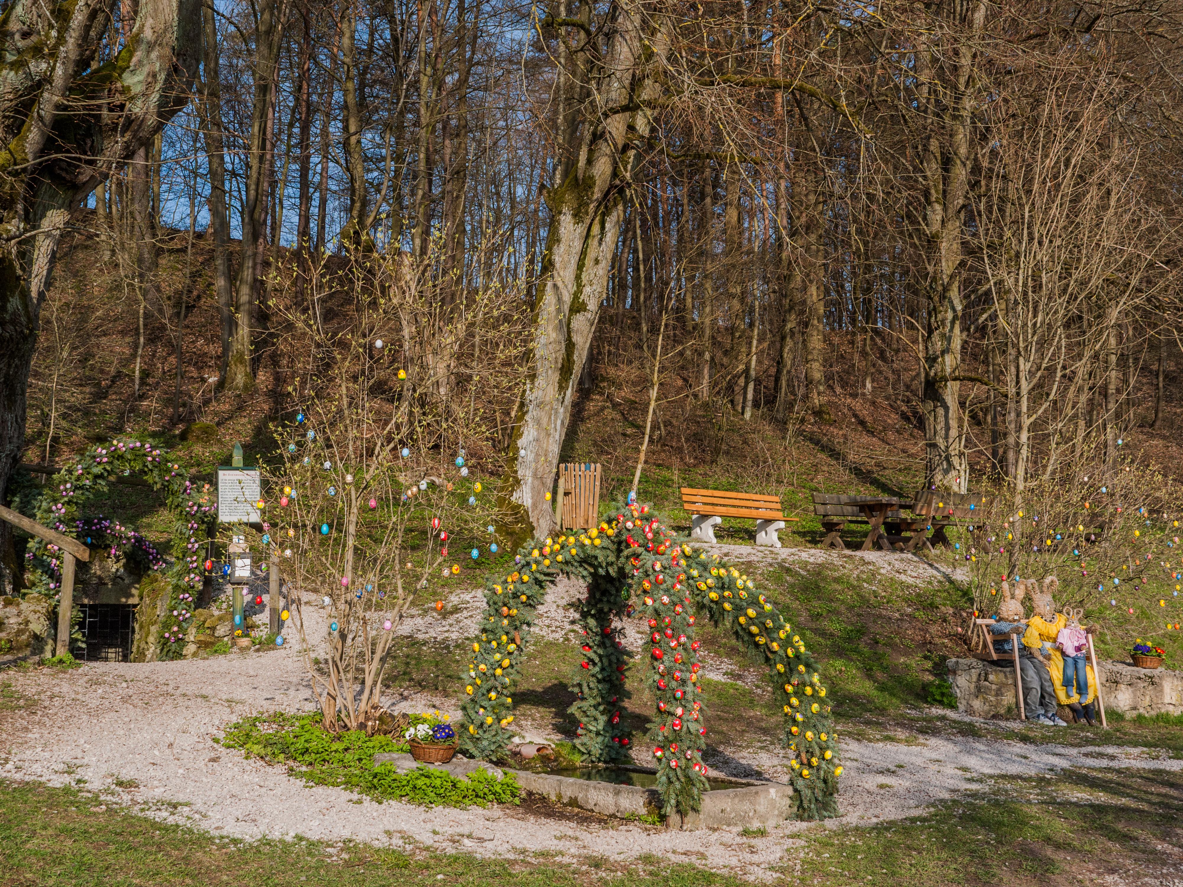 Easter fountain in Trainmeusel 2010